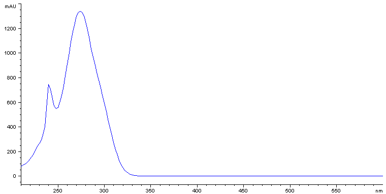 UV spectrum of EGCG